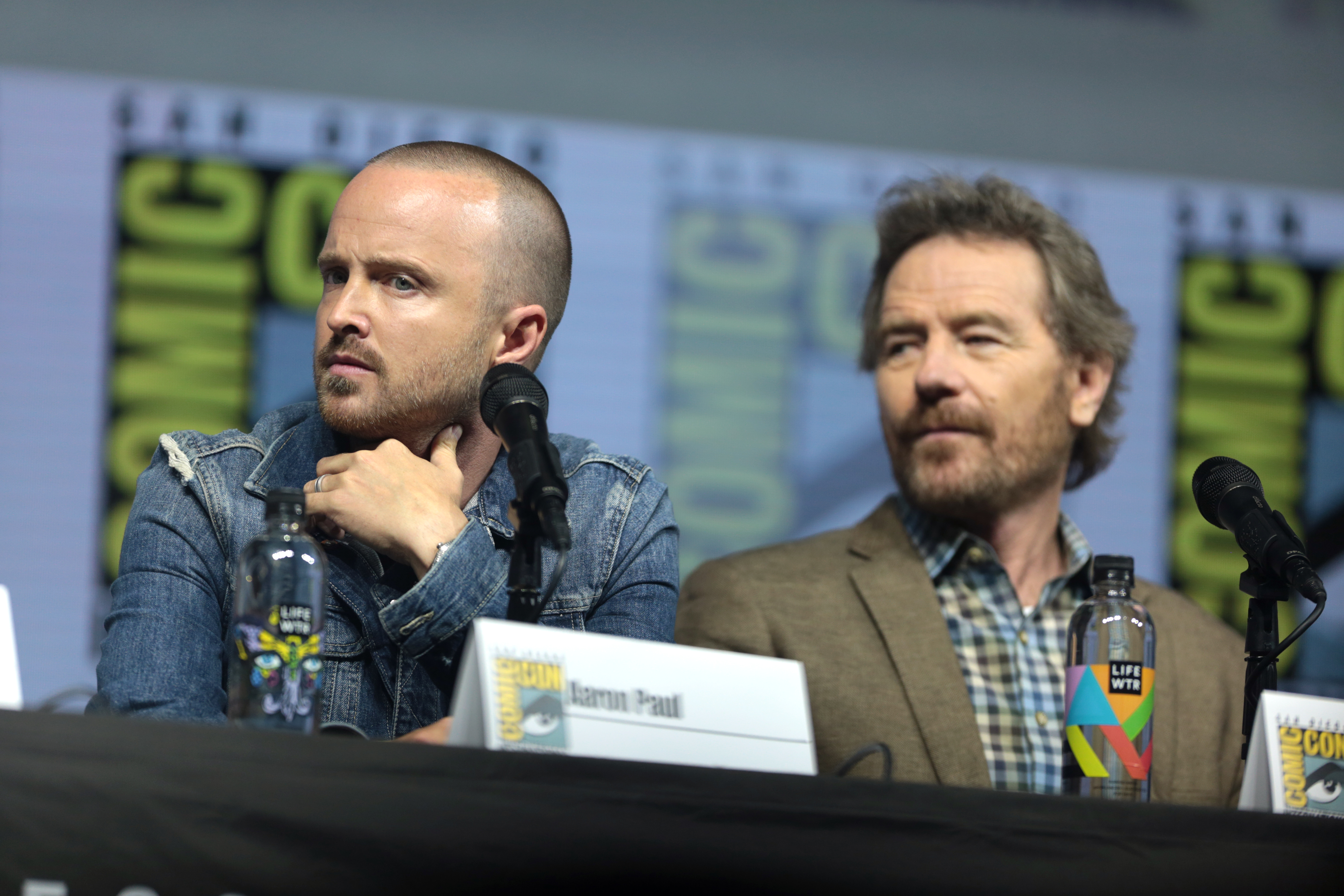 Aaron Paul and Bryan Cranston speaking at the 2018 San Diego Comic Con International, for "Breaking Bad 10th Anniversary Reunion", at the San Diego Convention Center in San Diego, California.